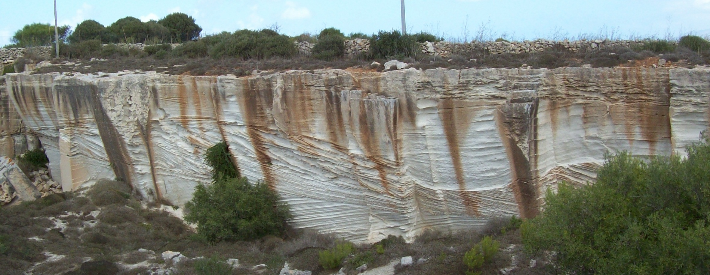 Dune sediments of Plestocene age - Favignana island (Egadi Islands - western Sicily, Italy), an old stone quarry near Cala Rossa. Outcrop wideness: 30 m